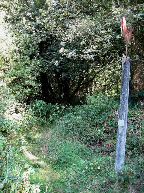 Jacob's Post. The metal bird attached to the top of the post has the date 1734 on it. The post is a reminder of a foul deed committed nearby on that date. An itinerant pedlar named Jacob Harris (Alternatively known by his Jewish name of Yacob Hirsch) lay in wait on the night 26th May to let all the customers leave the nearby 1446441 before returning to attack the landlord, Richard Miles, and his wife and their maid. The latter two died of their stabbing wounds whilst Miles was mortally wounded. Harris stole a coat worth ten shillings and when he discovered the supposedly dead Miles had disappeared, at which point he scarpered heading north to Turners Hill where he stayed at the Cat Inn. Although he had been stabbed in the throat and face Miles had been able to stagger to get help nearby and was able to identify his attacker who was a regular customer at the Royal Oak. A search party of soldiers was sent out to look for him and inadvertently discovered him at Selsfield House where they had retired from the rainy night, lit a fire that flushed him out of the chimney he was hiding in. Harris was tried and executed in Horsham and his body returned to hang in a gibbet at the northern end of Ditchling Common next to the highway and near the scene of his crime. The post itself took on a life of its own as people believed infertility and other ailments could be cured by touching the post and subsequently took away small pieces when visiting. This continued well into the 19th century despite the original post being replaced by another. The post used to be visible from the road but the common here has returned to scrub and has to be accessed via a track that starts next to the Royal Oak or from the farm drive or nearby Bankside Farm.